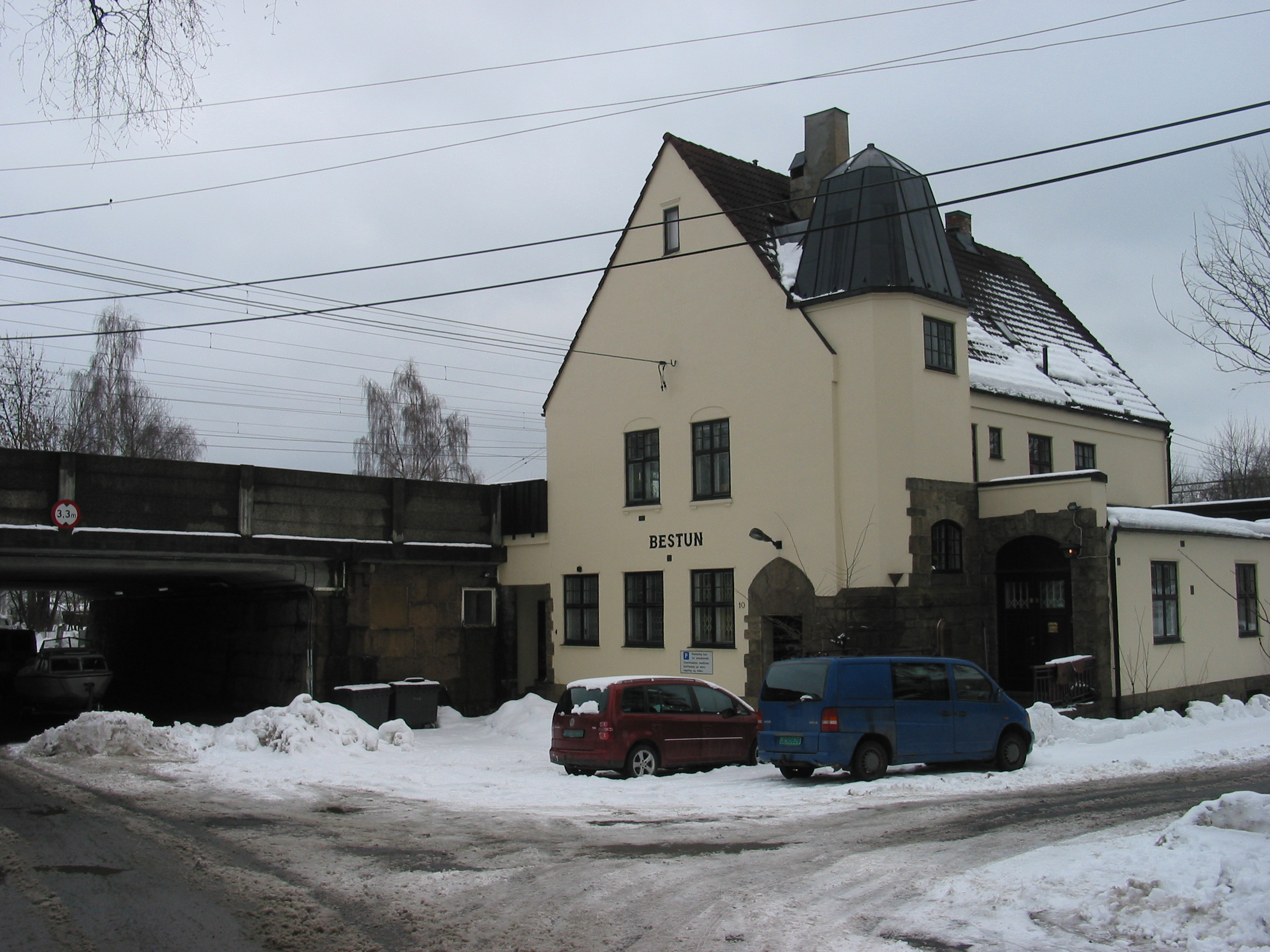 The building at Bestun railway station, seen from the north, March 2009.